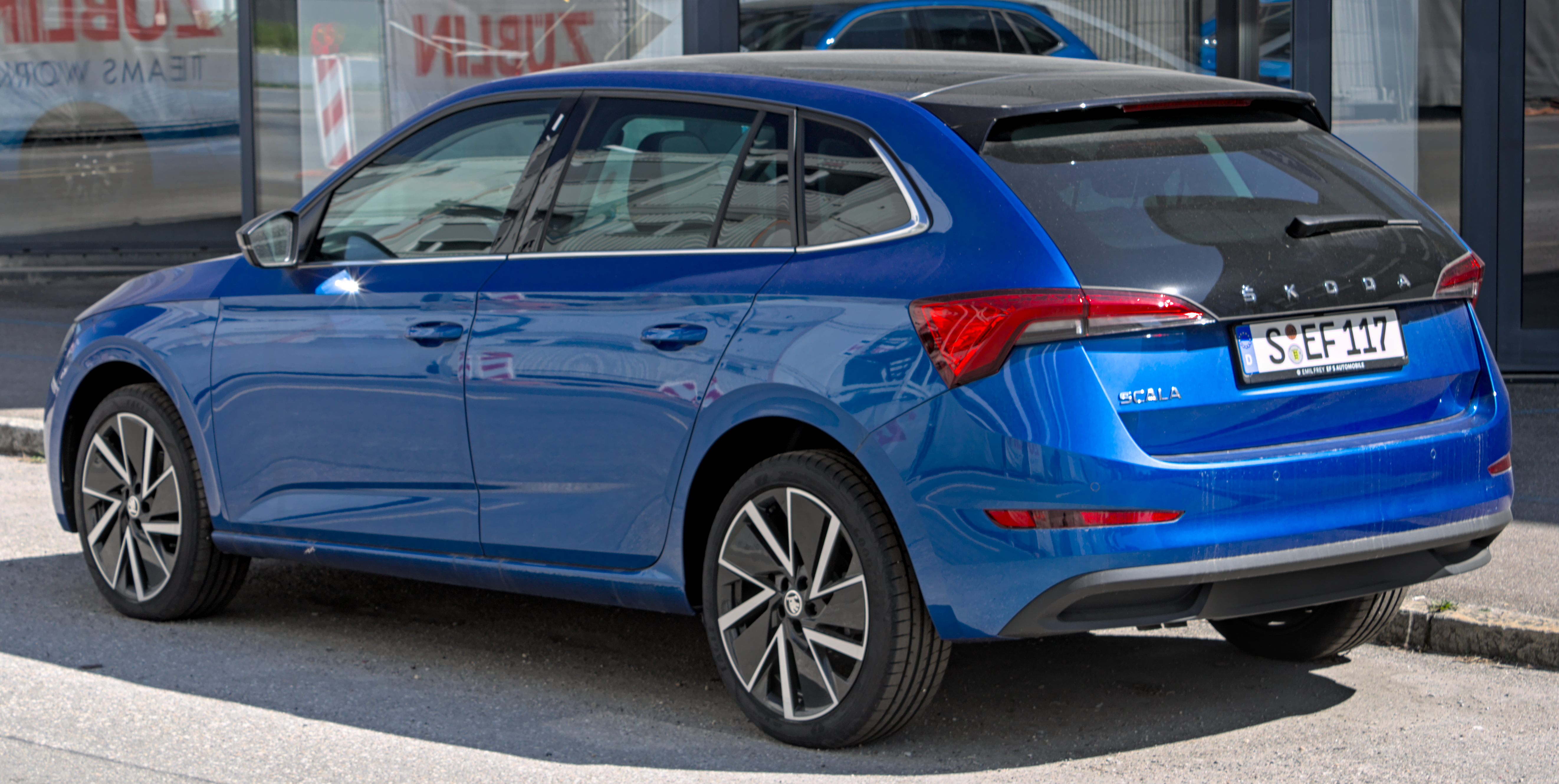 Skoda_Scala in Stuttgart-Vaihingen